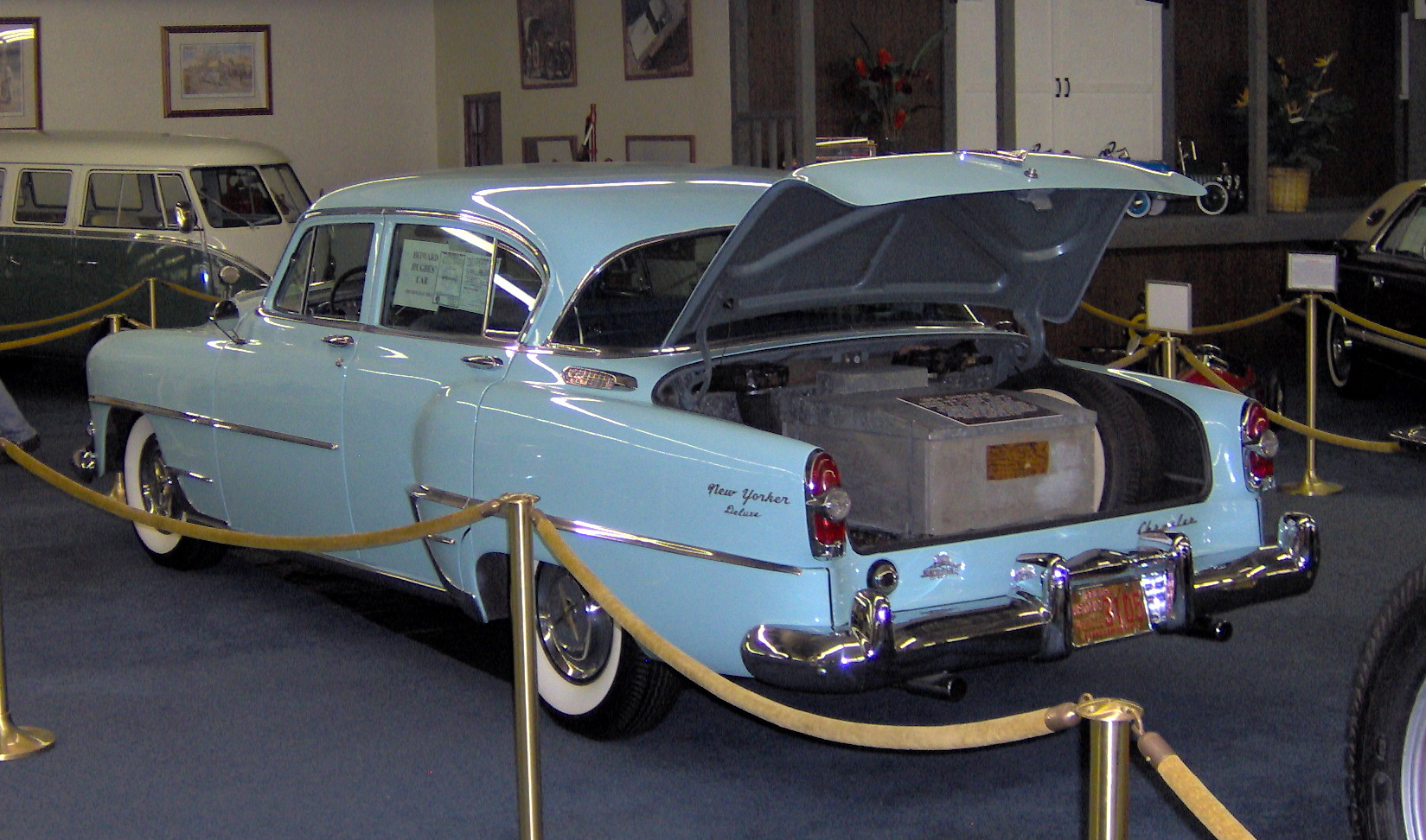 1954 Chrysler New Yorker, as modified by owner Howard Hughes. Hughes equipped this 1954 Chrysler New Yorker with an aircraft-grade air filtration system which took up most of the trunk.